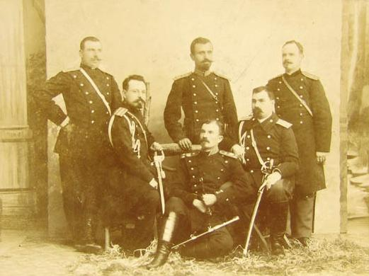 bulgarian revolutionary/ies